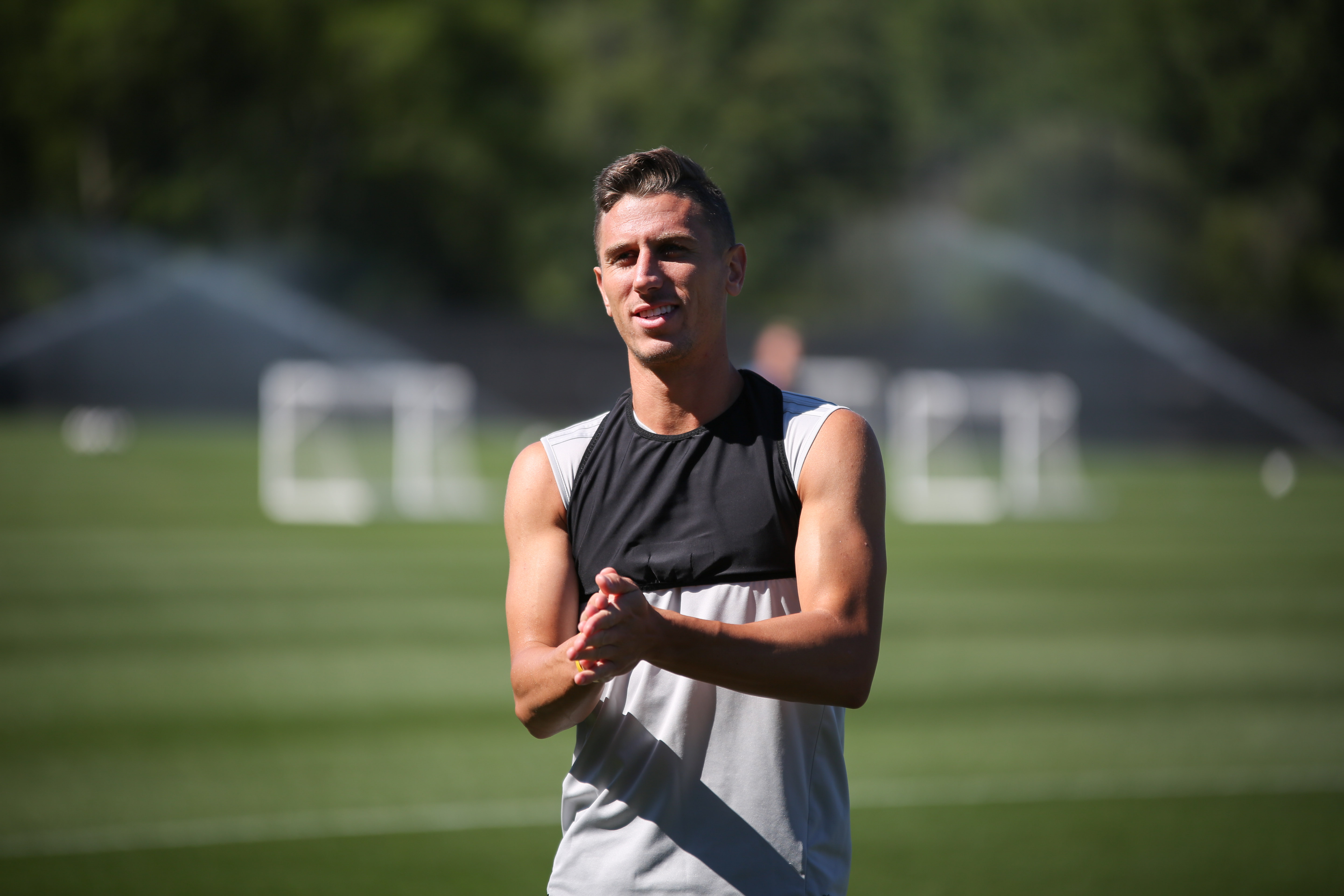 Ben Sweat NYCFC